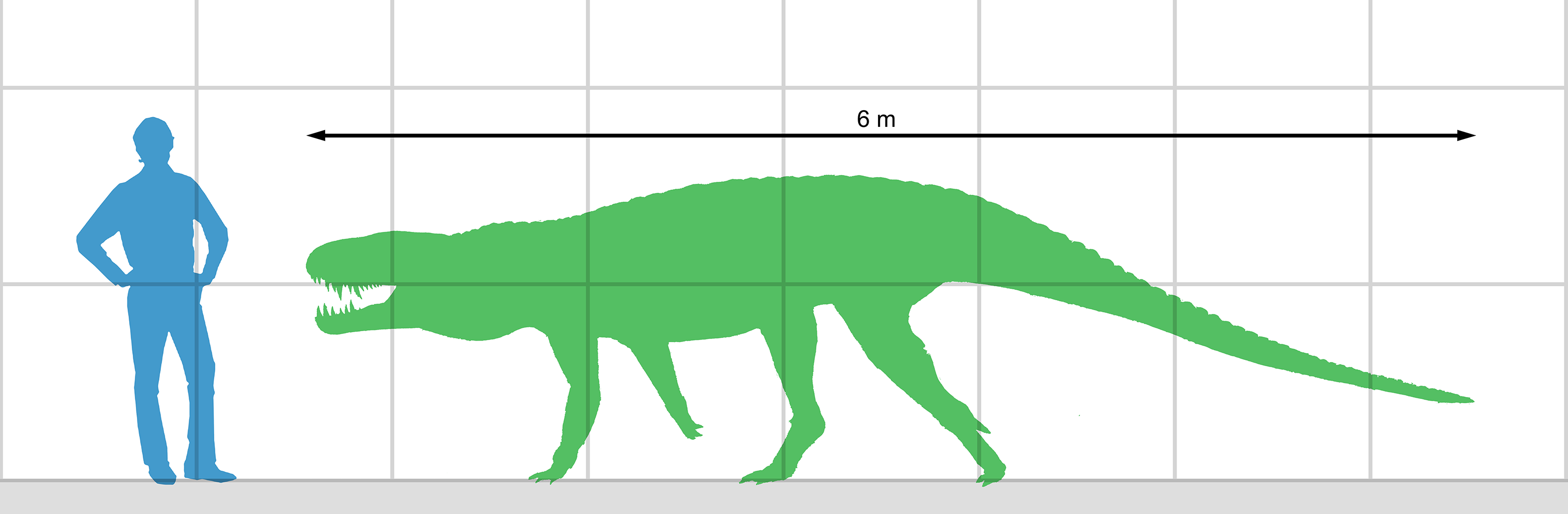 Size of Polonosuchus